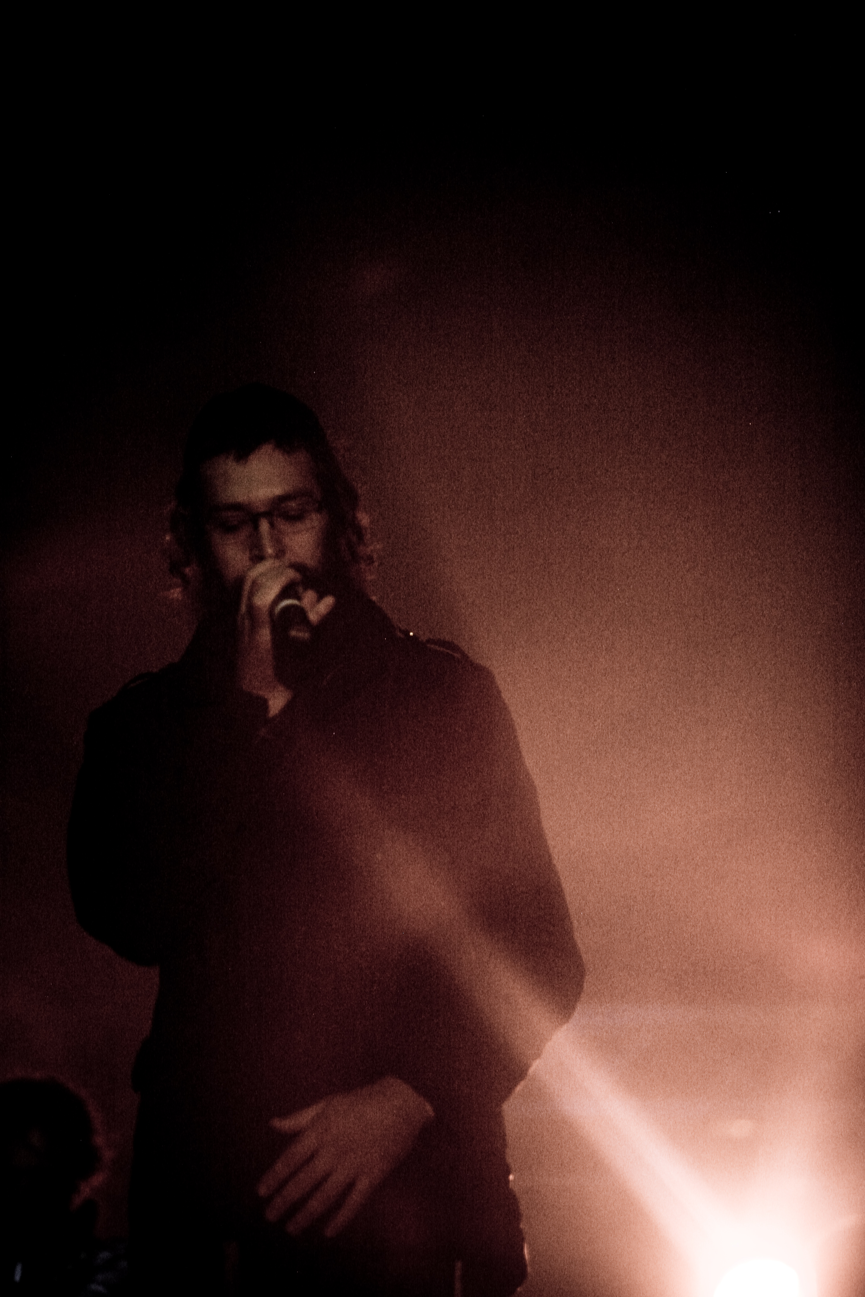 Matisyahu performing photograph by Kris Krug